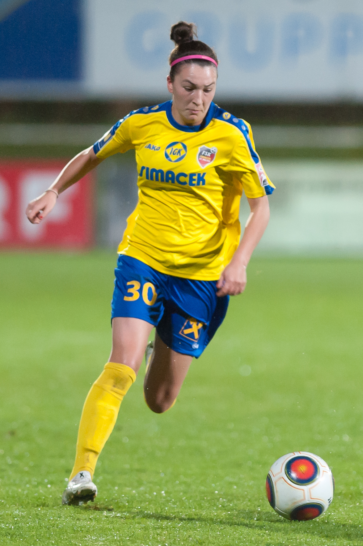 UEFA Women's Champions League FSK St. Pölten-Spratzern vs ASF CF Verona, St. Pölten, 2015-10-07